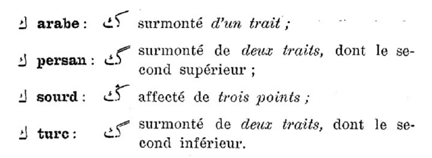 Four variants of letter kaf in used to differentiate the phonetic value of the letter kaf in Ottoman Turkish.